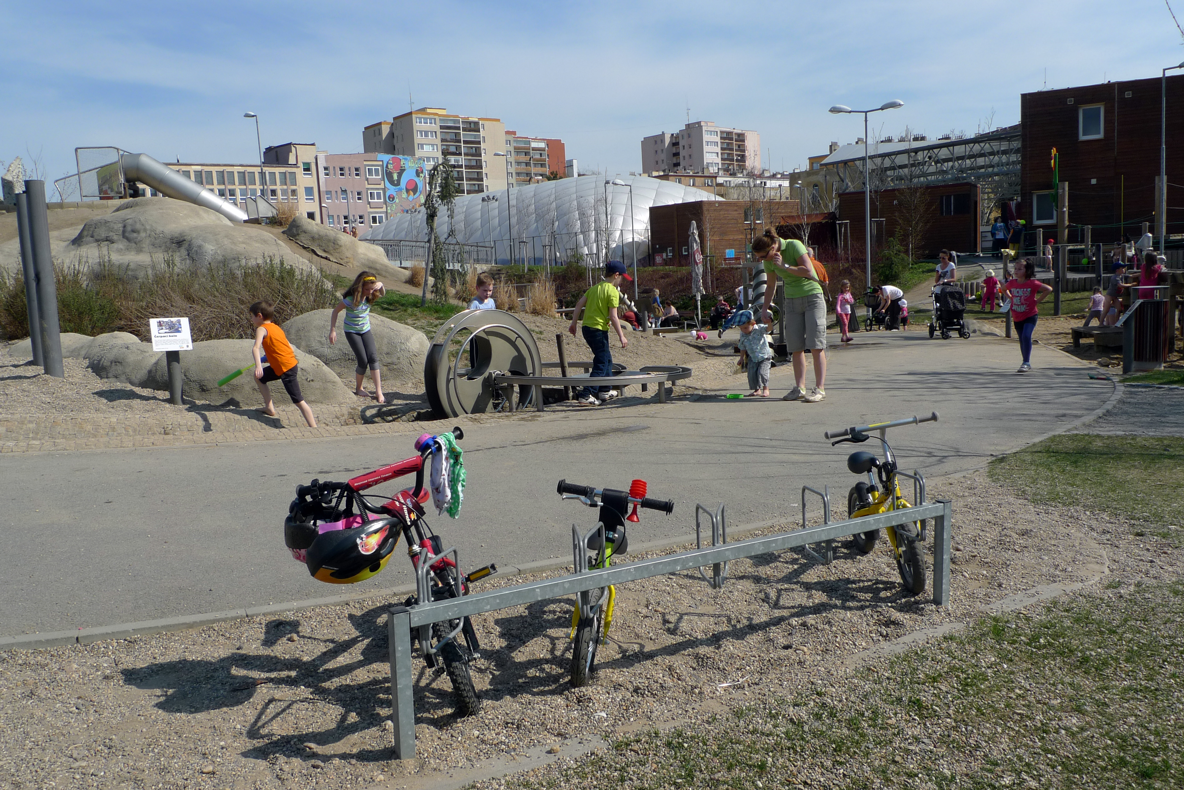 Sport and relax center Gutovka, Prague 10, Czech Republic